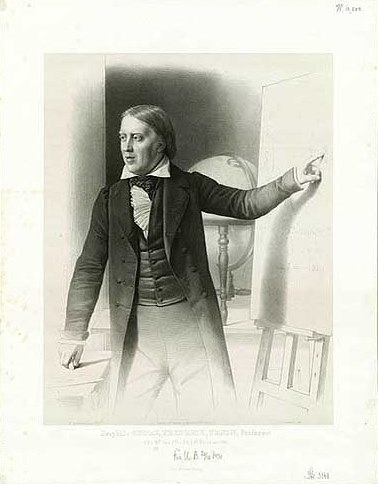 Georg Frederik (Friderich) Krüger Ursin (1797-1849), Danish mathematician and astronomer. Lithograph (posthumous) from an 1836 painting by C.W. Eckersberg.